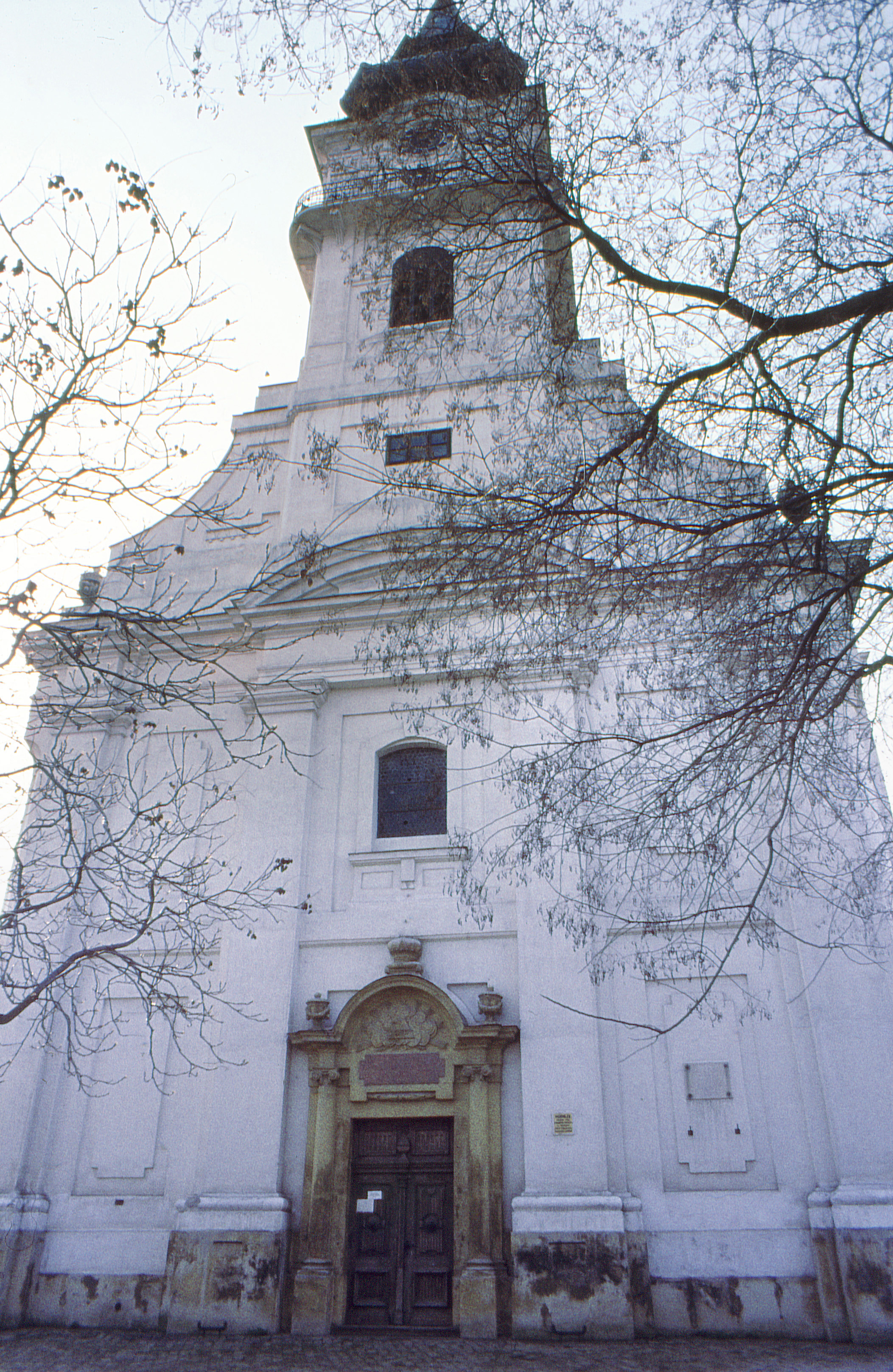 Hódmezővásárhely Lutheran New-Church, Built in 1799